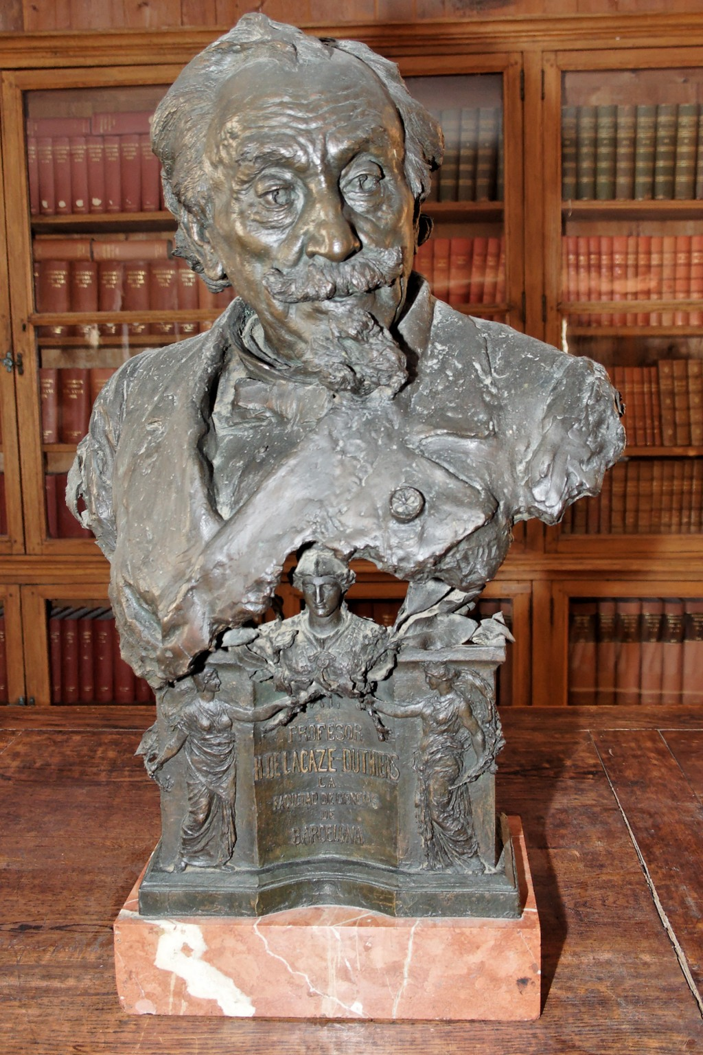 Bronze statue of Henri de Lacaze-Duthiers, founder of the Station biologique de Roscoff, Finistère, France (Library of the Station biologique)